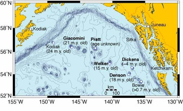 Map showing seamounts of the Kodiak–Bowie chain in the Gulf of Alaska